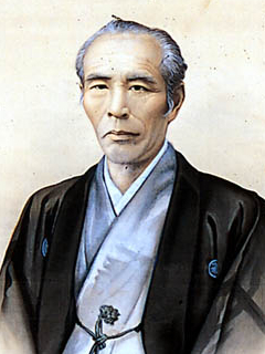 Portrait of Mishima Okujirō by Watanabe Yūkō. Collection of the Nagaoka City Central Library.